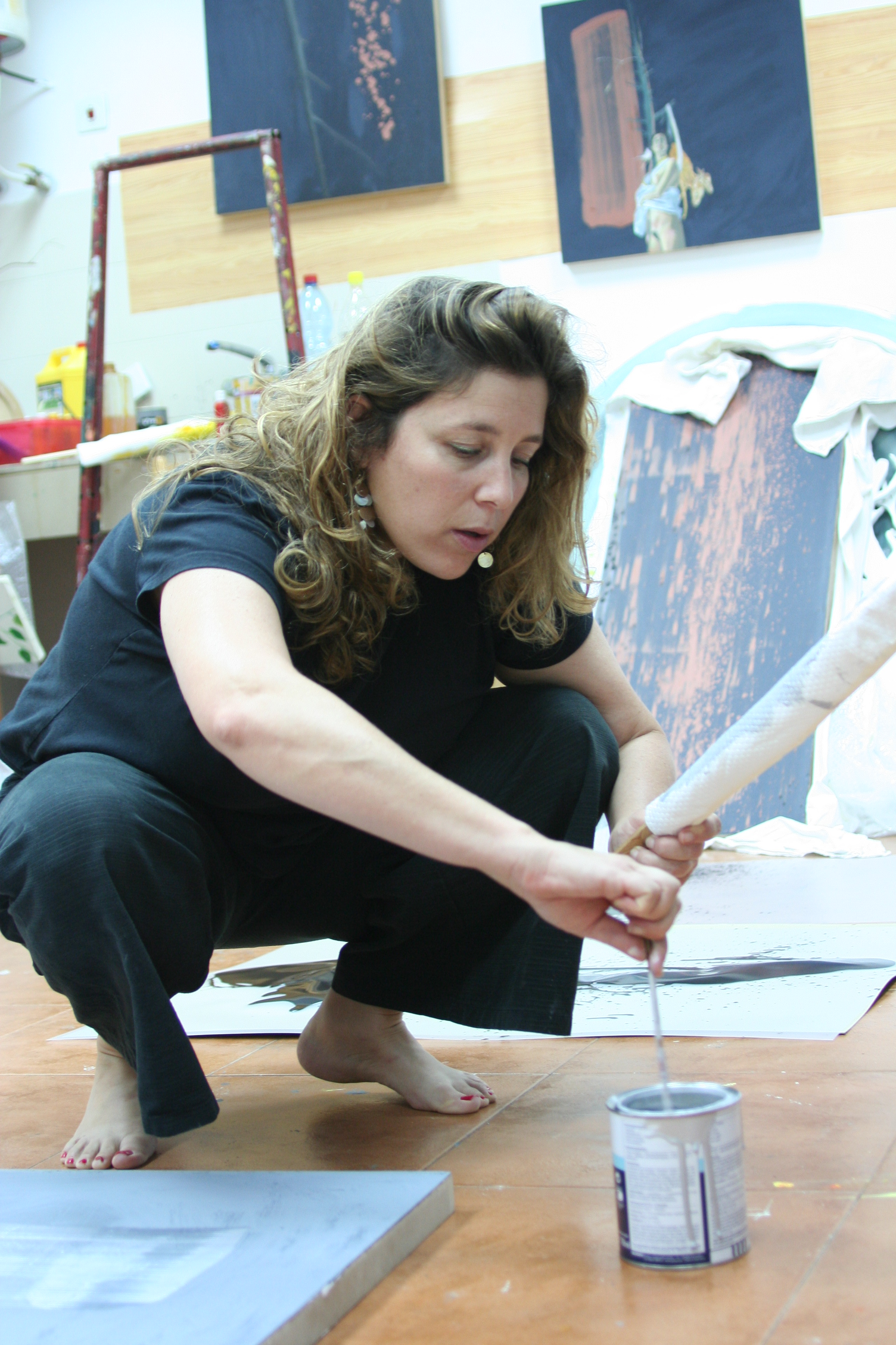 Artist Ayelet Carmi in her studio